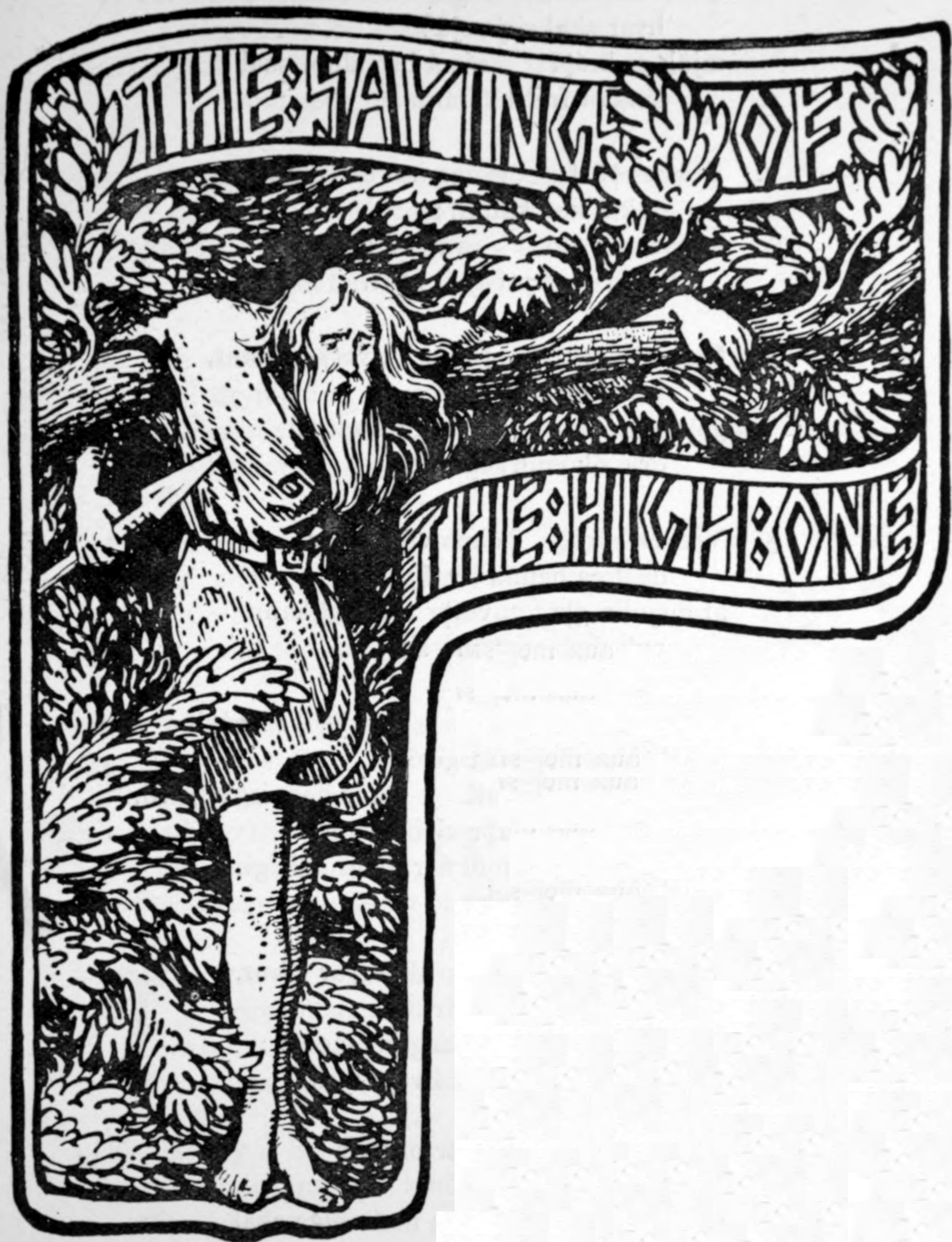 The god Odin hangs in the tree, having sacrificed himself to himself as described in Hávamál. The list of illustrations in the front matter of the book gives this one the title Odin's Self-sacrifice.